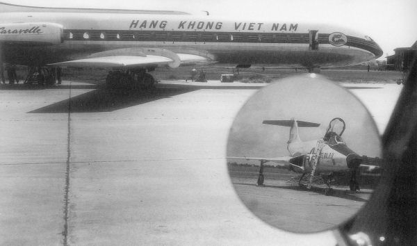 An Air Vietnam Sud Aviation Caravelle airliner on the ramp at Tan Son Nhut air base, with U.S. Air Force 33rd Tactical Group McDonnell RF-101A Voodoo visible in the side-view mirror of the photographer's vehicle, 1964.